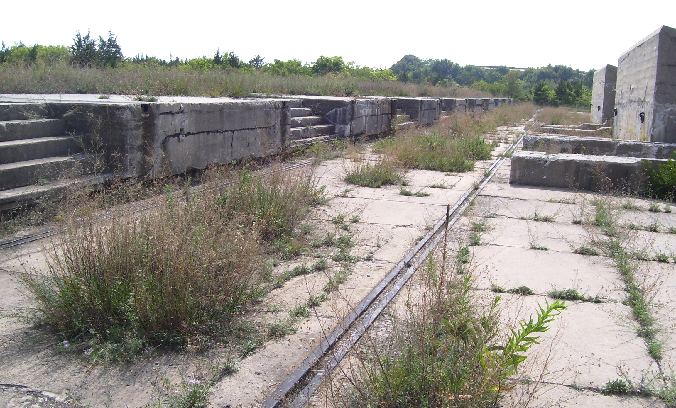 Abandoned concrete gun platforms, formerly part of the Proof Battery of the Sandy Hook Proving Ground, in use from 1901-1919. To the right are protective walls, or "traverses". Soldiers used a 20-foot gantry crane on rails to lift guns and carriages onto the platforms to be tested, or "proved". Sandy Hook is now part of the Gateway National Recreation Area; these platforms are near North Beach.